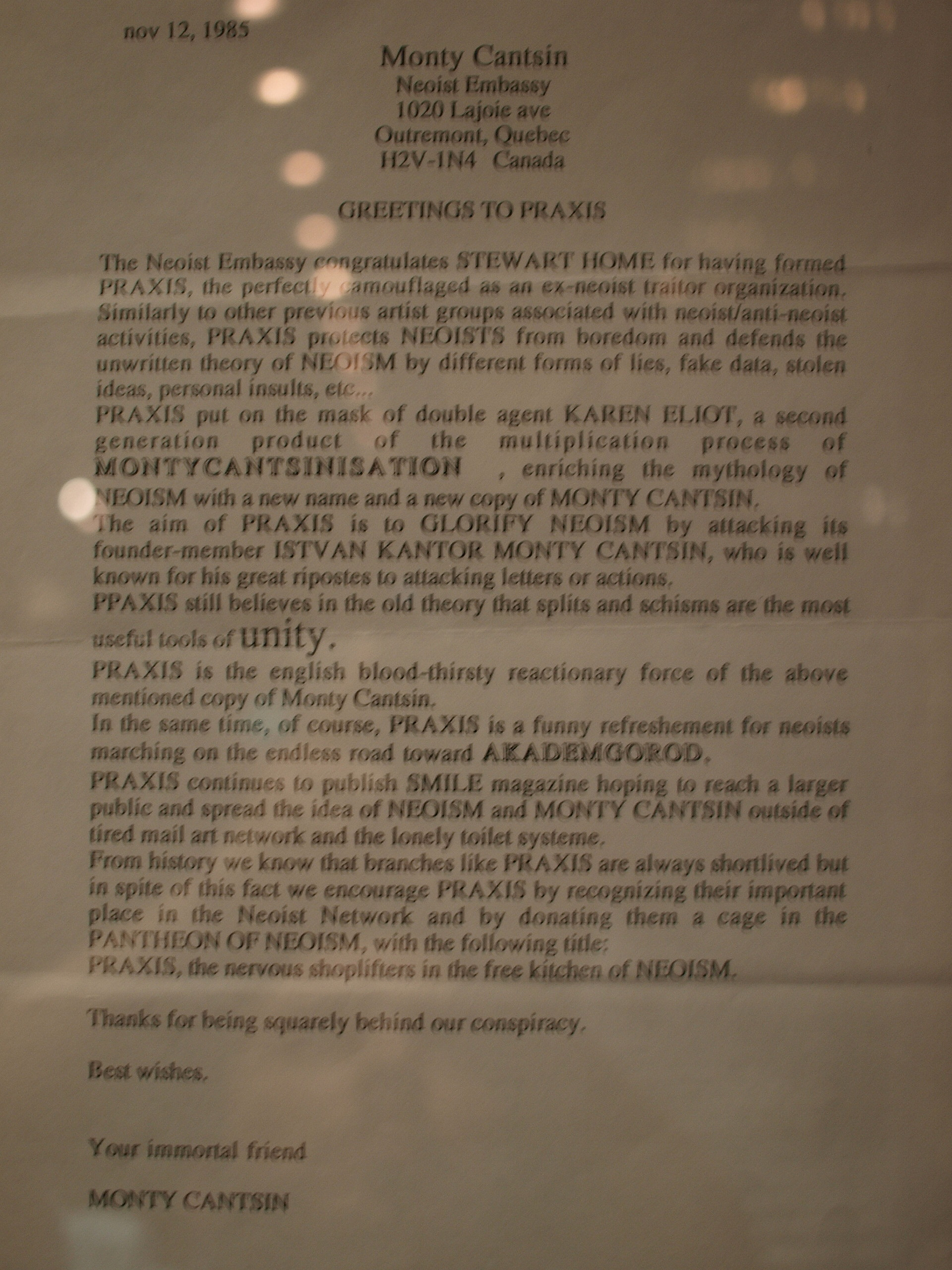 Monty Cantsin: Greetings to Praxis